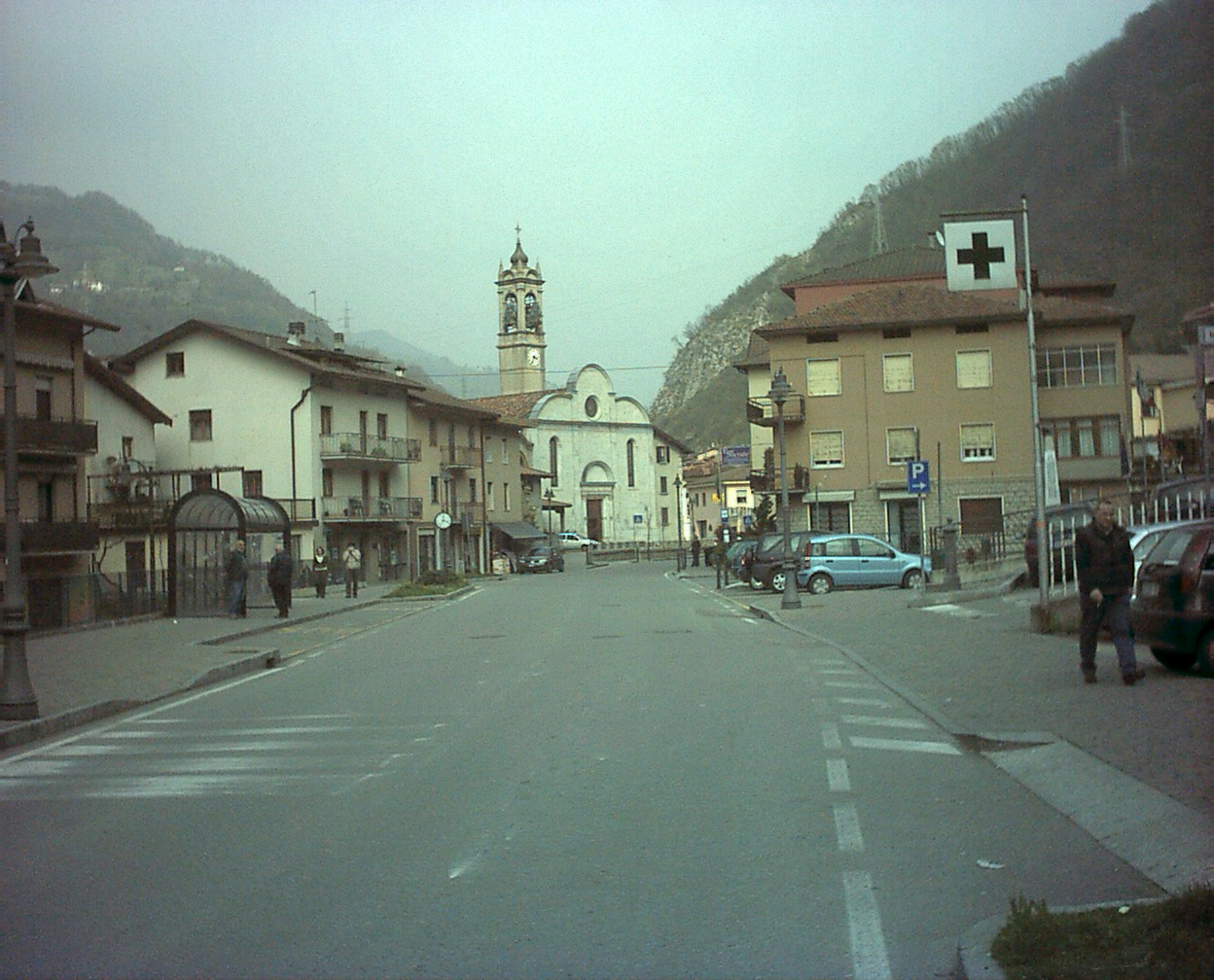 View of Sedrina, Bergamo, Lombardy, Italy